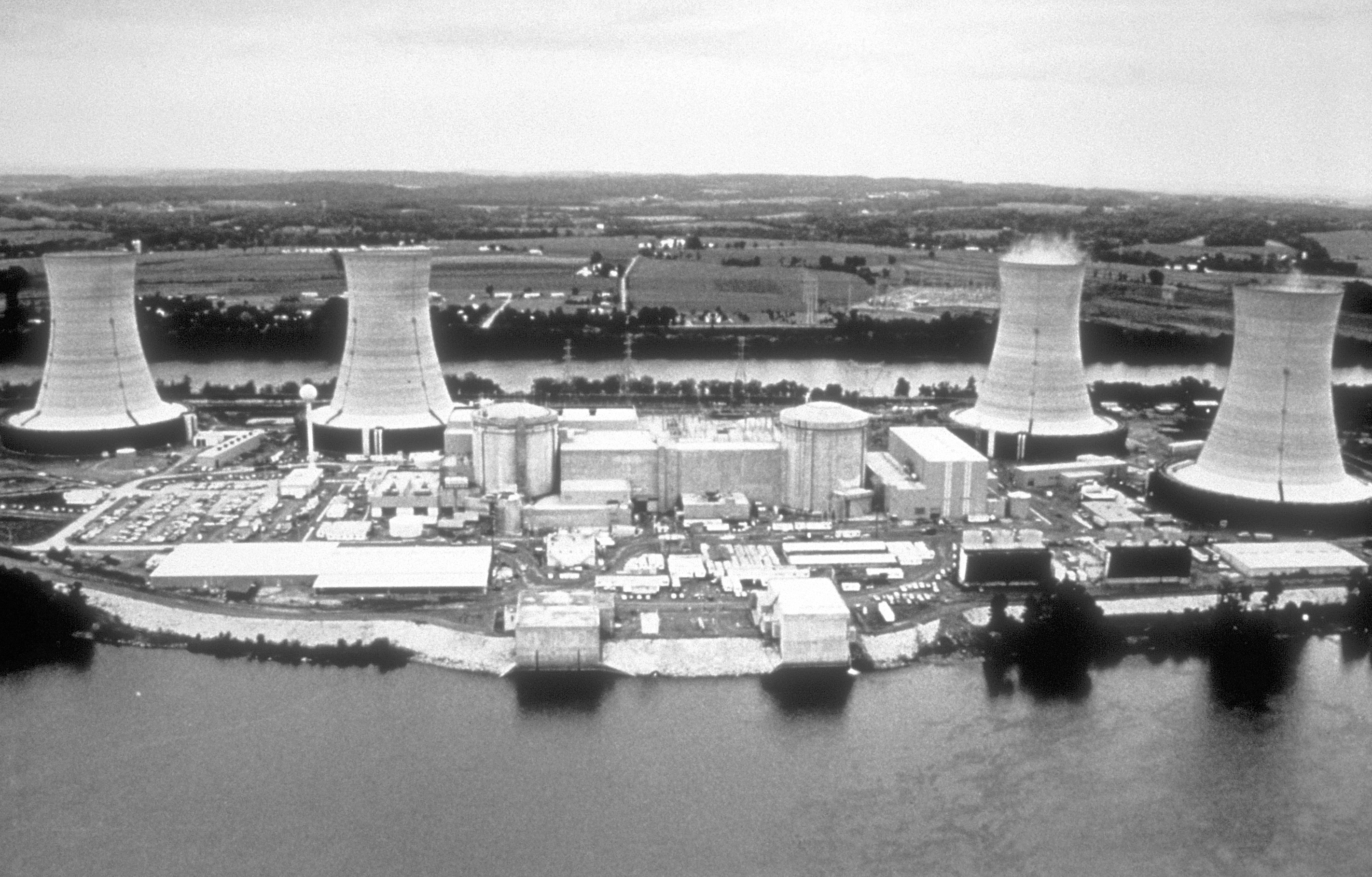 This image depicts the Three Mile Island nuclear power plant near Middletown, Pennsylvania, which was the site of a March 28, 1979 power plant accident. The accident at the Three Mile Island Unit 2 (TMI-2) nuclear power plant was the most serious in U.S. commercial nuclear power plant operating history, even though it led to no deaths or injuries to plant workers or members of the nearby community. It brought about sweeping changes involving emergency response planning, reactor operator training, human factors engineering, radiation protection, and many other areas of nuclear power plant operations. It also caused the U.S. Nuclear Regulatory Commission to tighten and heighten its regulatory oversight. Resultant changes in the nuclear power industry and at the NRC had the effect of enhancing safety.